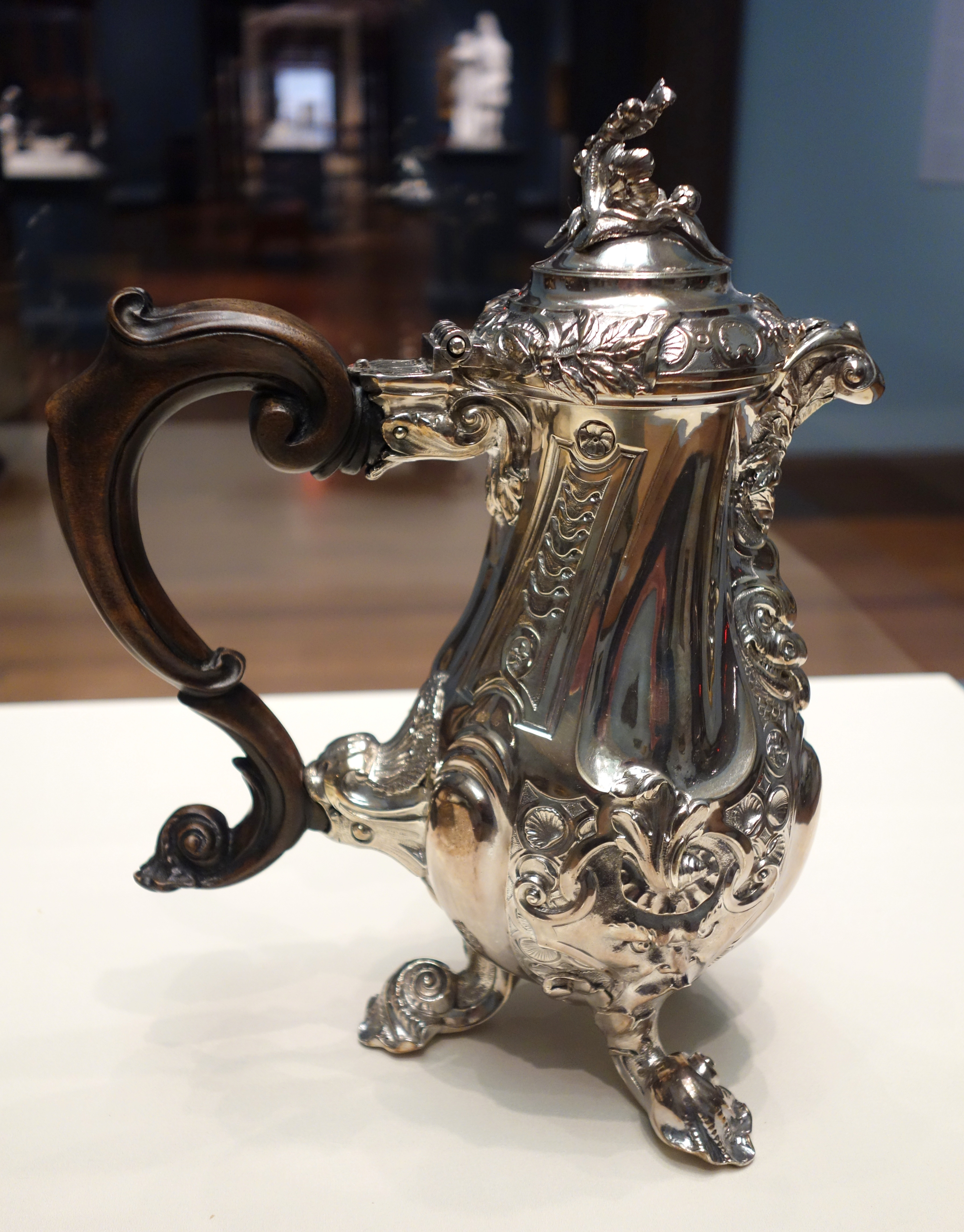 Coffee jug exhibited in the Cincinnati Art Museum, Cincinnati, Ohio, USA.